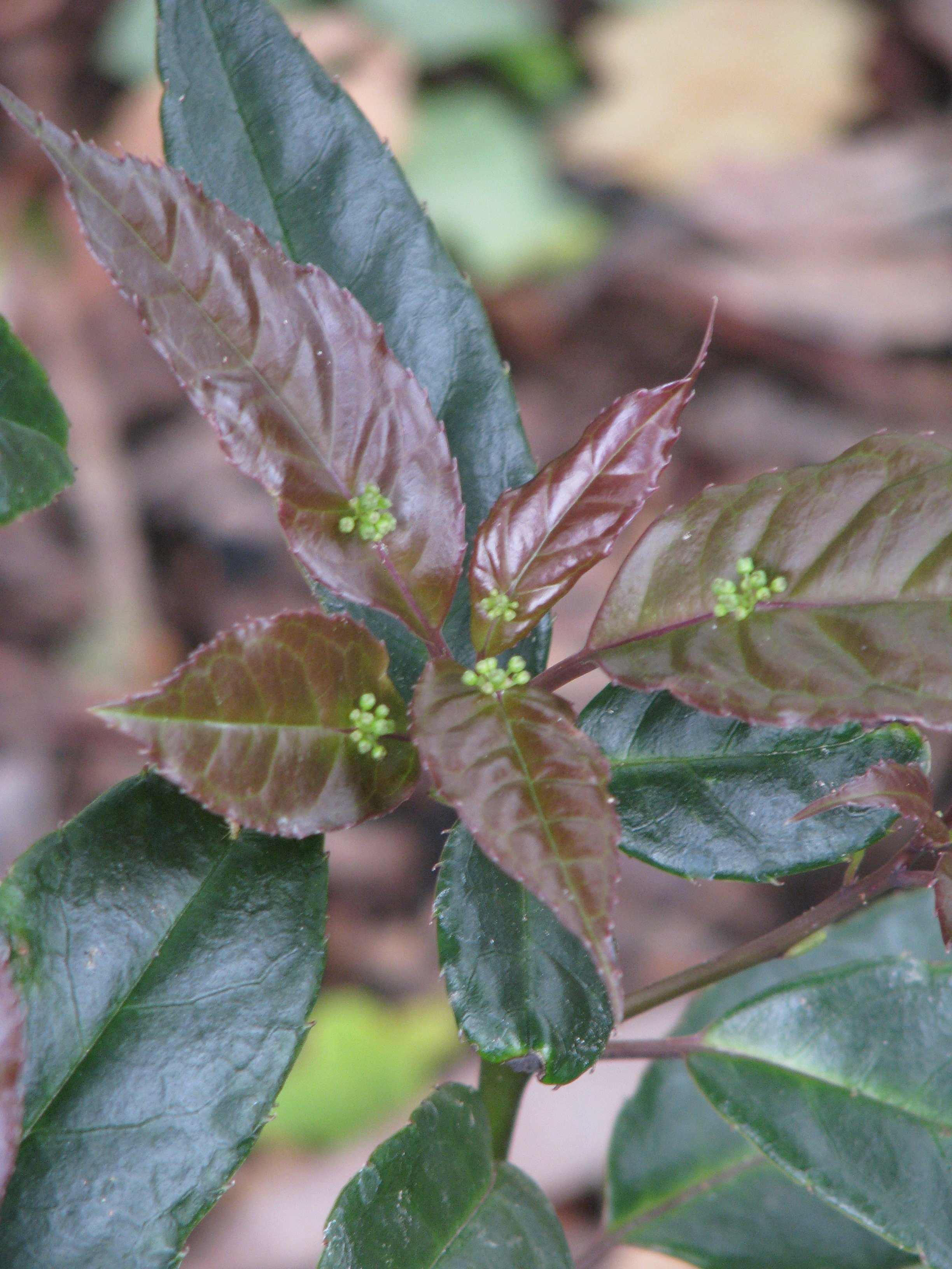 Helwingia chinensis